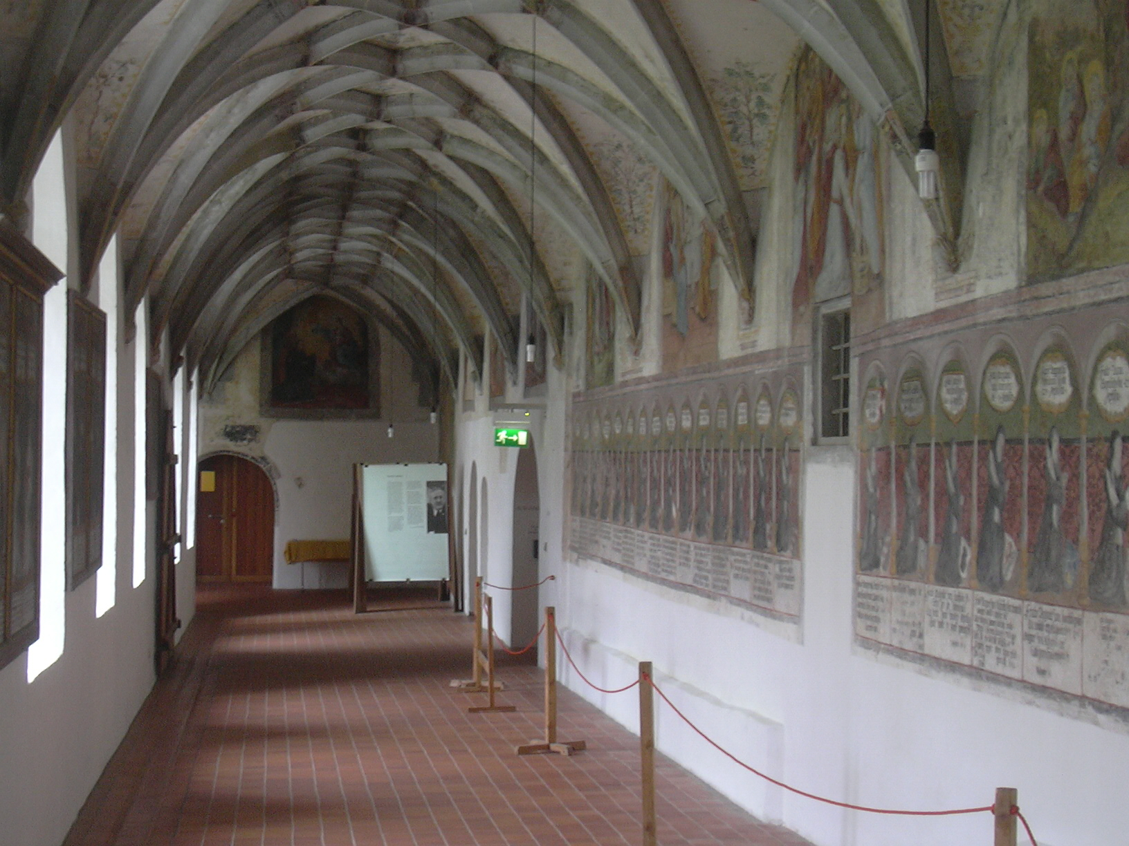 Cloister inside the monastery of Heiligkreuztal, Germany